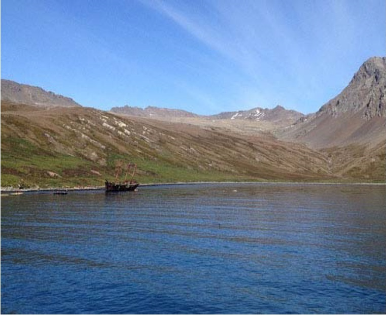 Ocean Harbour, South Georgia, South Atlantic